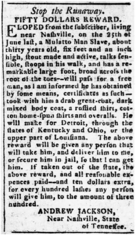 Notice published by future president Andrew Jackson offering a $50 reward, plus expenses, for the return of an enslaved mulatto man who escaped from Jackson's plantation. In a move unusual for the time, the notice offers "ten dollars extra, for every hundred lashes any person will give him, to the amount of three hundred.”